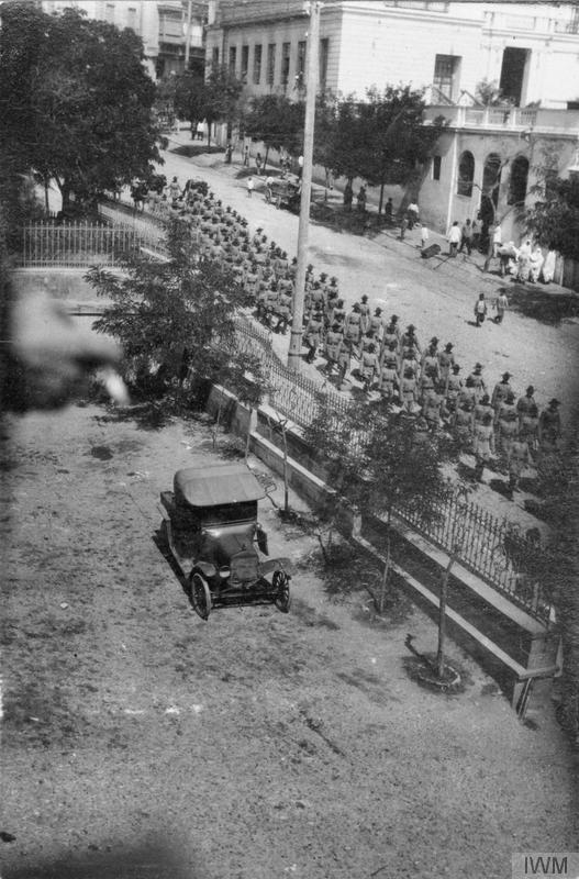 Demonstration of British force to impress native inhabitants, Baku, July 1919